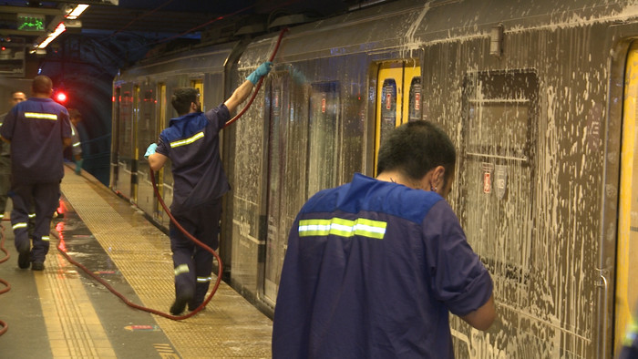 Cleaning of the 200 series cars of the Buenos Aires underground during the 2020 coronavirus outbreak in Argentina.